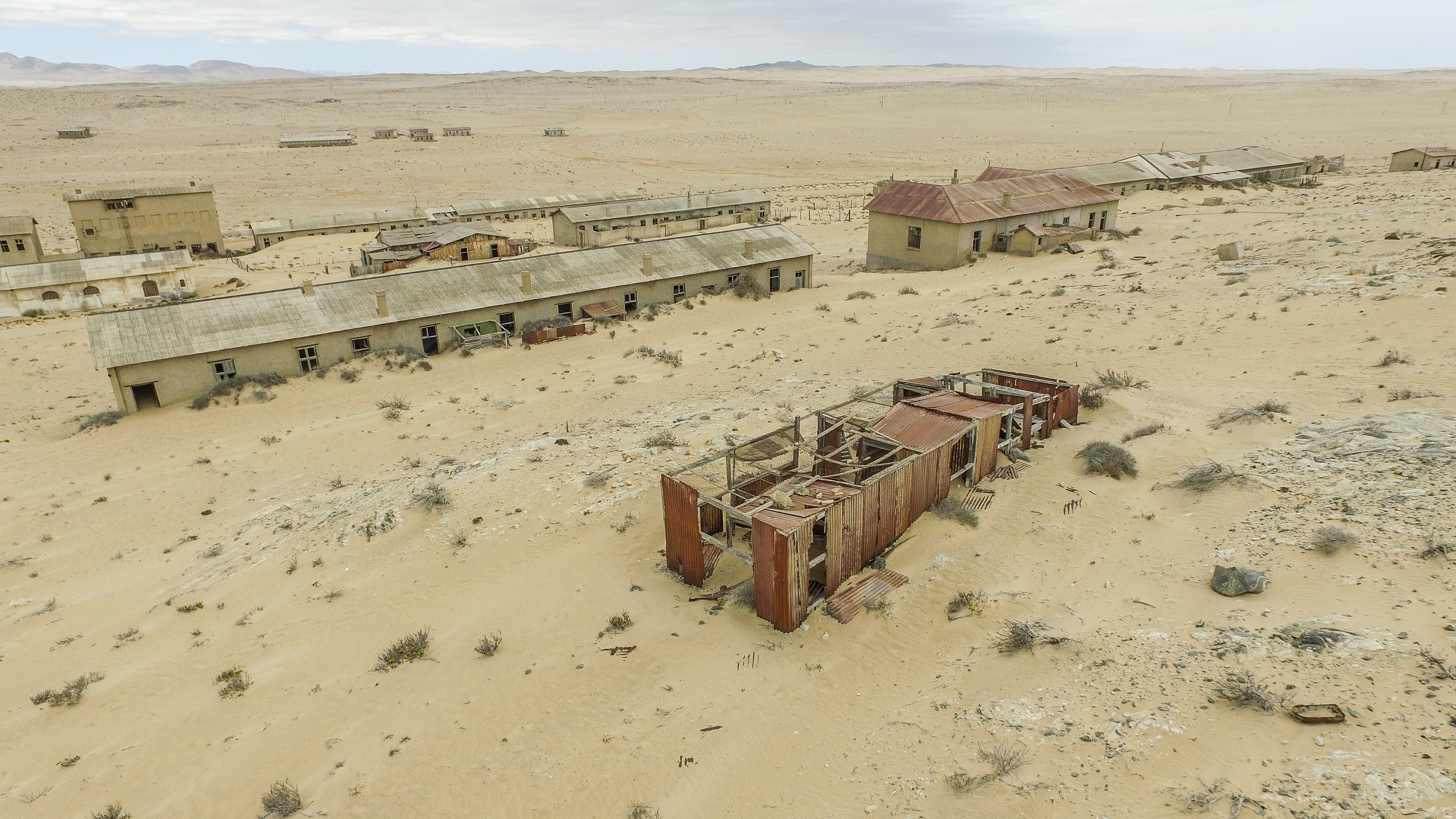 Kolmanskop, Coleman's hill, is a ghost town in the Namiba desert in southern Namibia, Kolmanskop Ghost Town Buildings are abandoned.